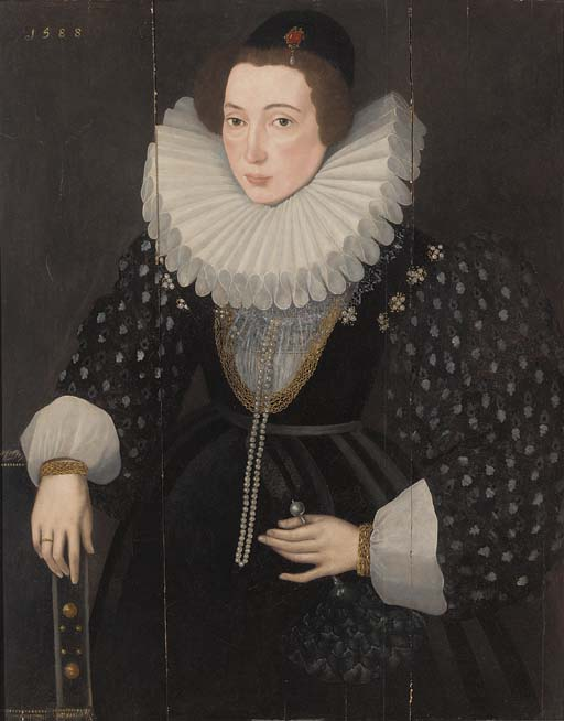 Portrait of a Lady, three-quarter-length, in a black dress with gold chain, pearl jewellery and white ruff collar, holding a fan in her left hand, her right arm resting on a chair